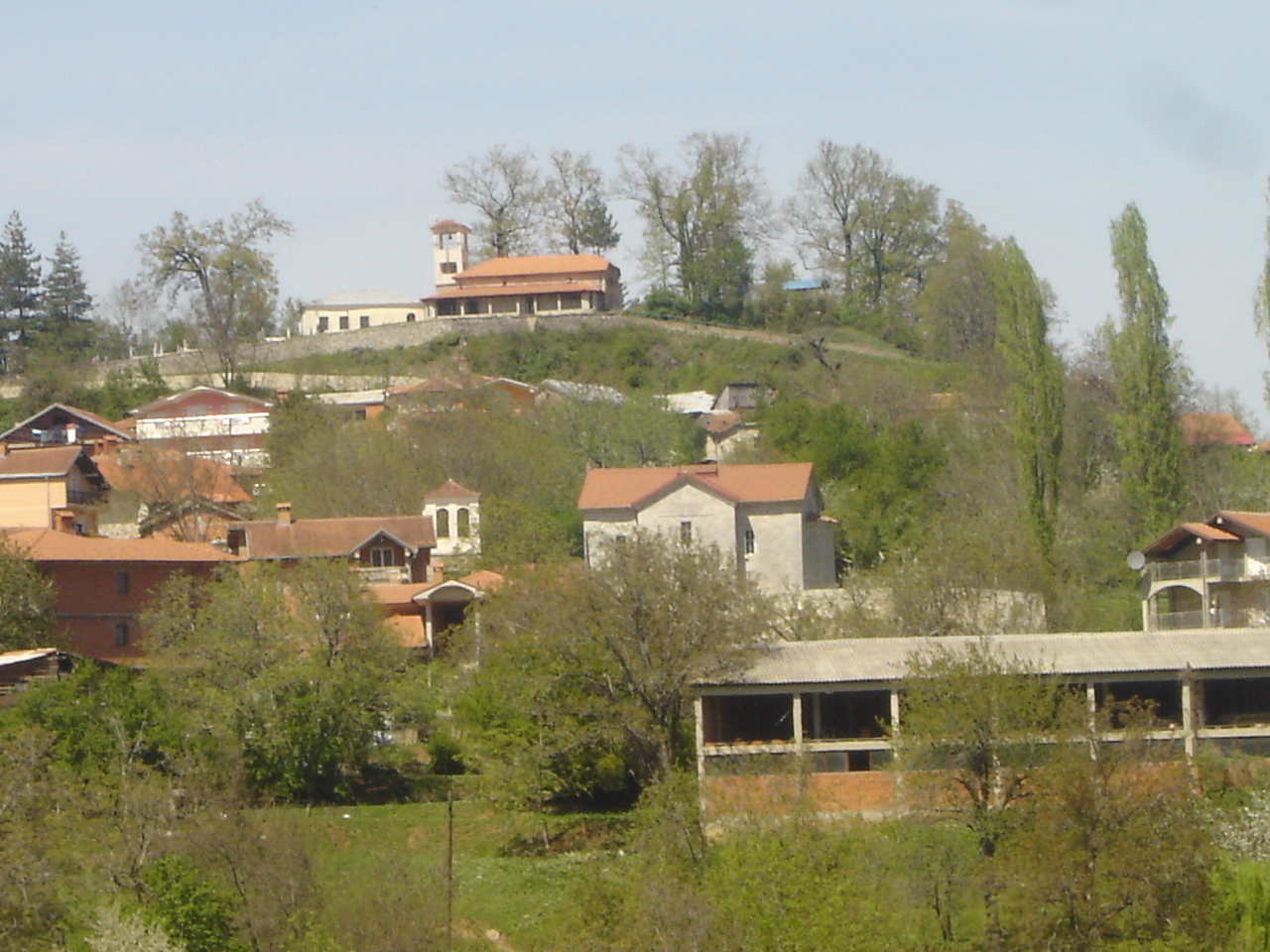 village of Boroec, near Struga, Macedonia